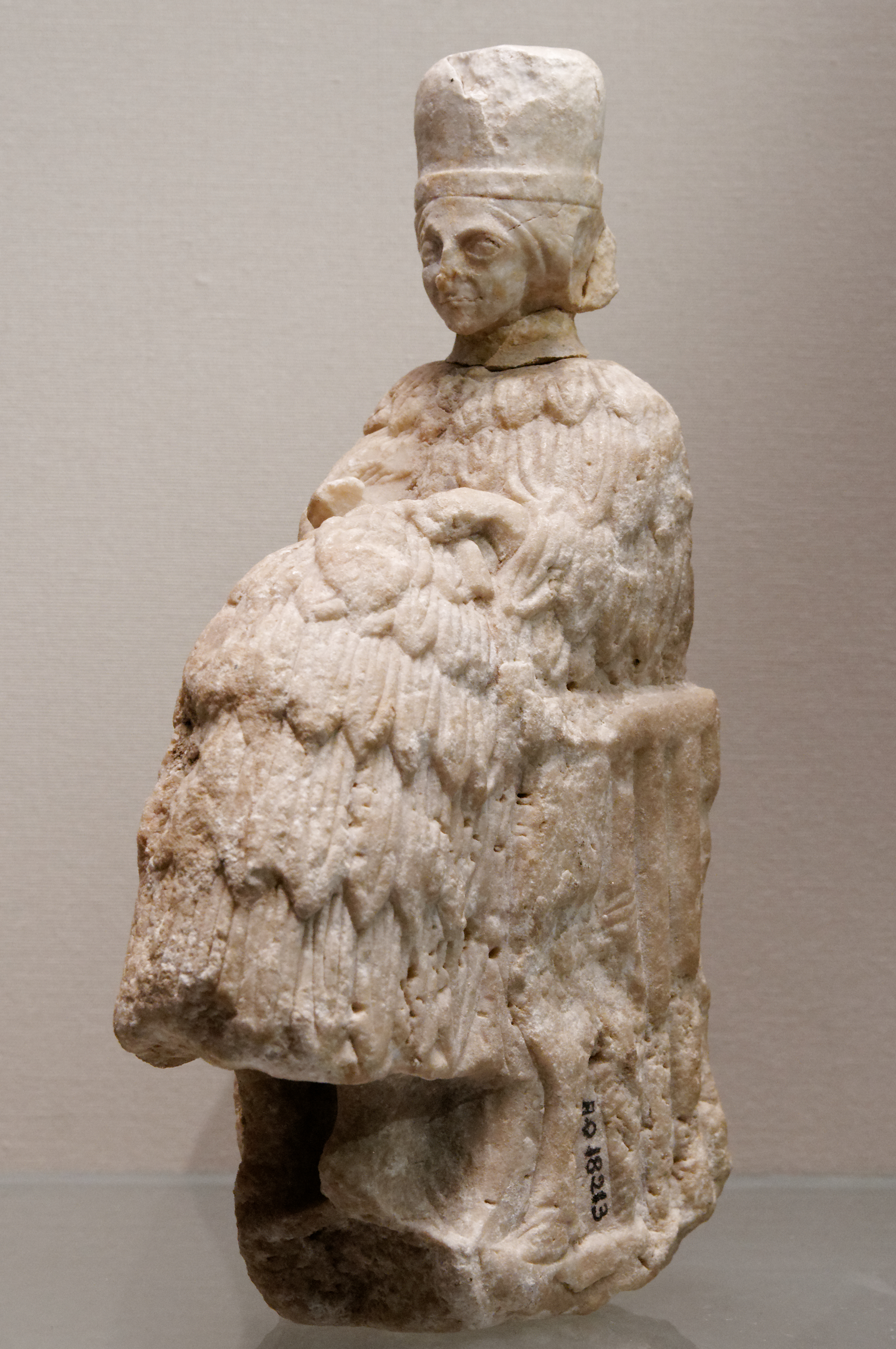 Statuette of a praying woman.